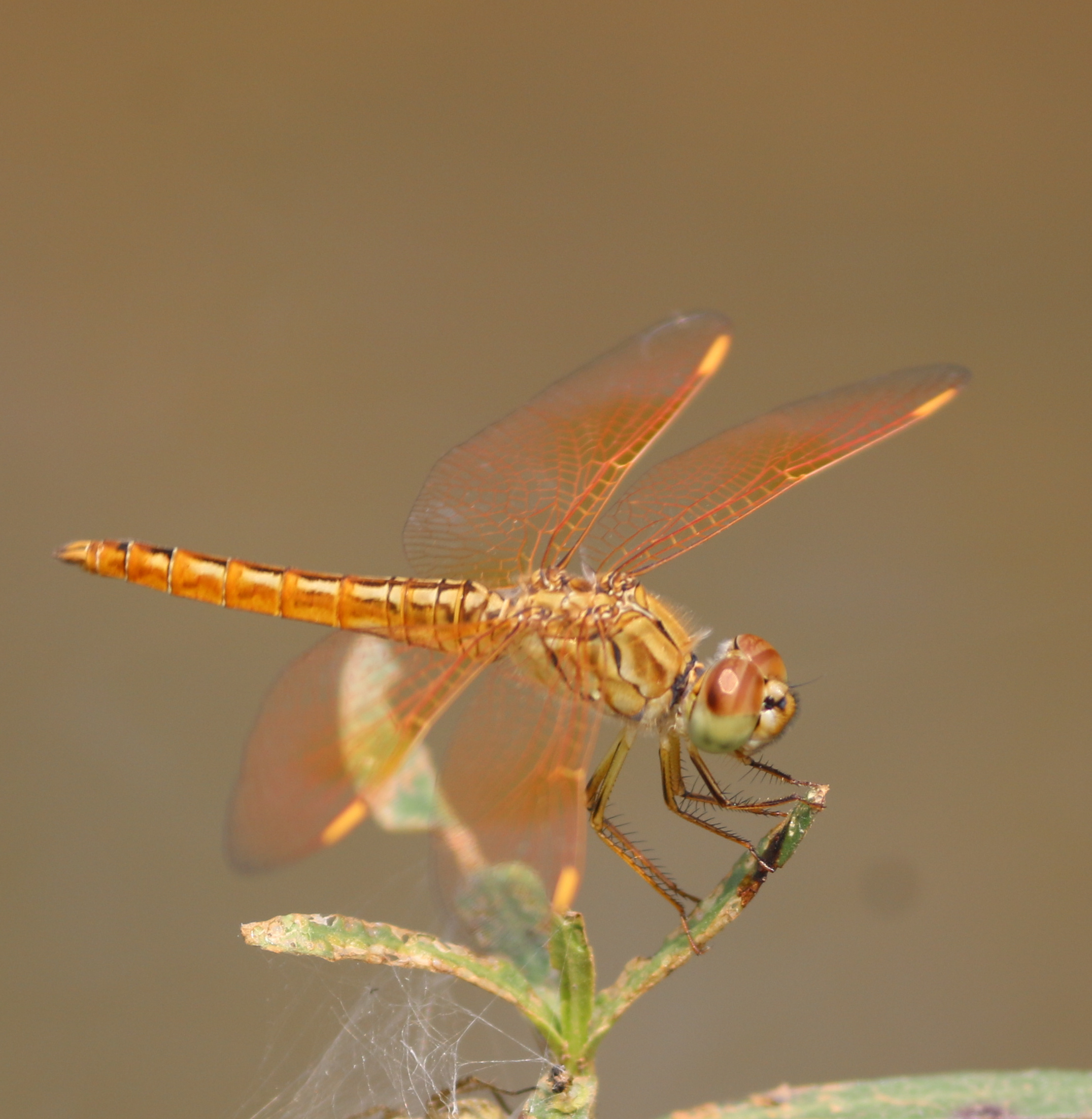 (Brachythemis contaminata)ditch jewel, male ചങ്ങാതിത്തുമ്പി